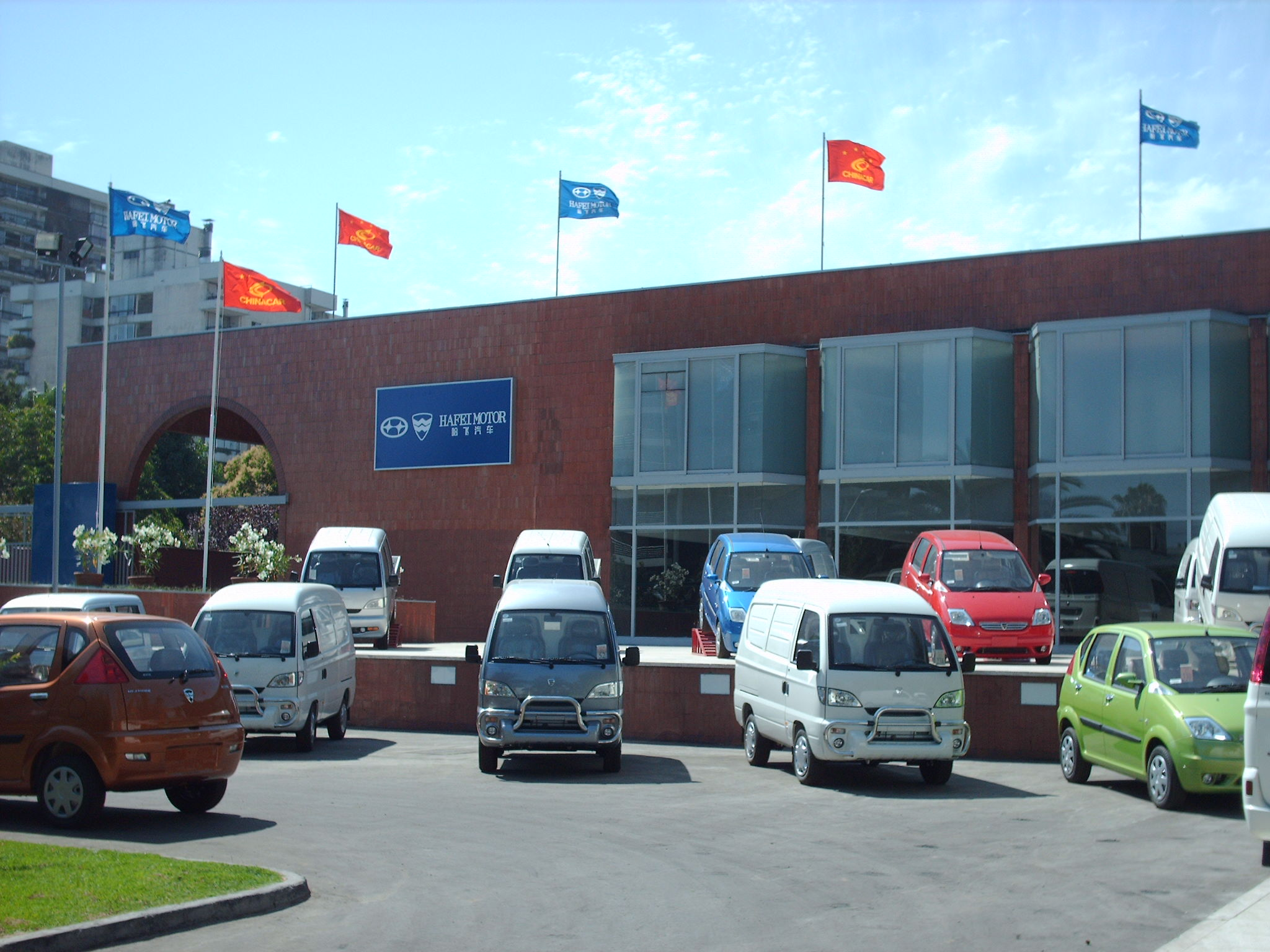 First dealer of Hafei Motor (Chinese automaker) in Av. Bilbao, Providencia, Santiago, Chile